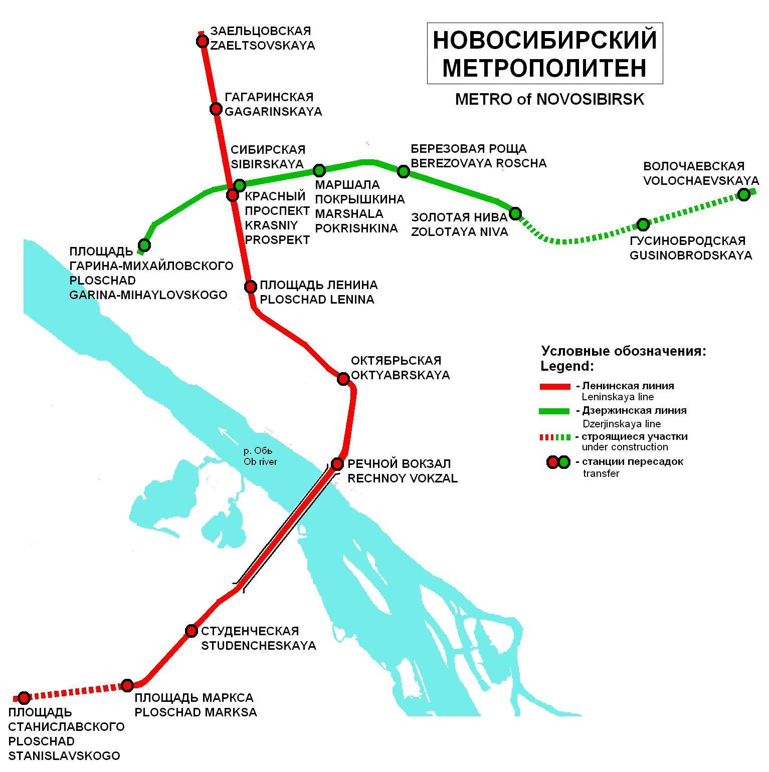 Map of the Novosibirsk metro